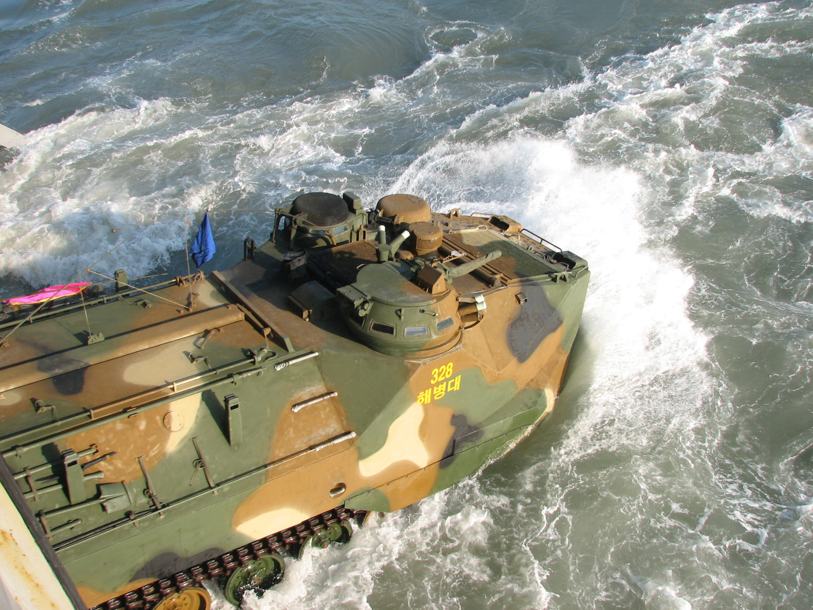 060330-N-7798B-018 Yellow Sea (March 30, 2006) – A South Korean amphibious assault vehicle (AAV) leaves the well deck of the U.S. Navy’s amphibious transport dock ship USS Juneau (LPD 10), during a combined amphibious landing held in Manripo, Republic of South Korea. Both are completing operations supporting Reception, Staging, Onward Movement and Integration (RSIO) during Foal Eagle (FE) 2006. Ships and units assigned to Commander, Task Force Seven six (CTF-76) and embarked elements of the 31st Marine Expeditionary Unit (MEU) have been participating in RSOI/FE 06 to strengthen interoperability between the United States and the Republic of South Korea. U.S. Navy Photo by Electronics Technician 3rd Class Daniel Ball (RELEASED)